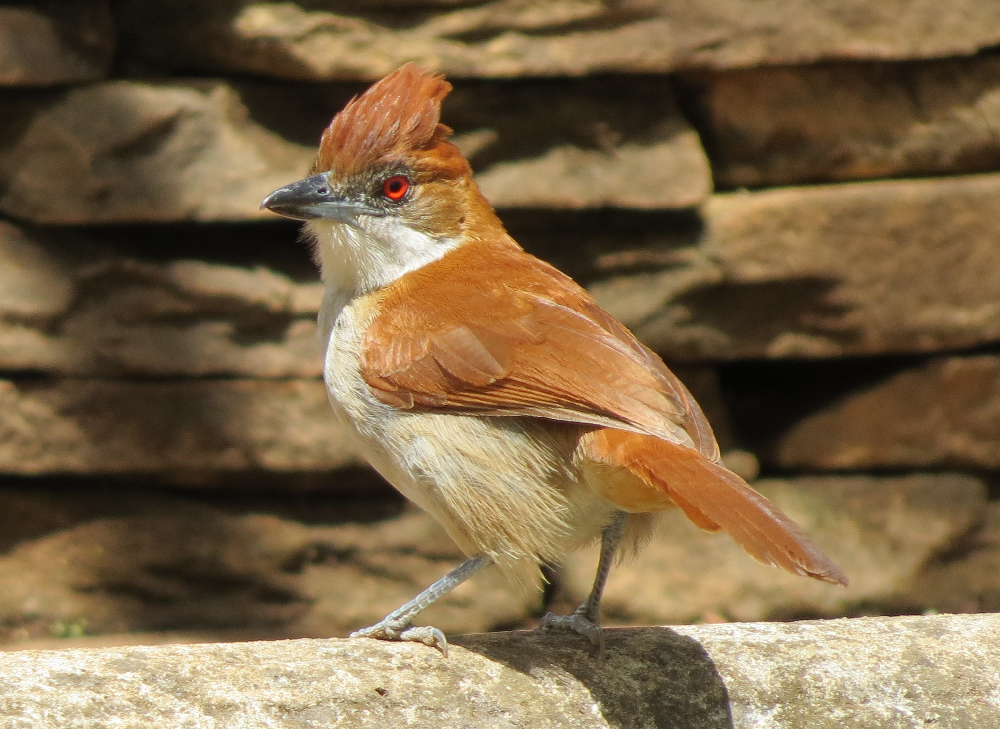 Great Antshrike (Taraba major) in Belo Horizonte Zoo, Brazil. Female.